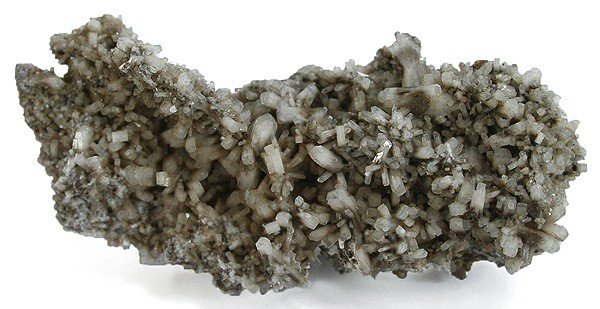 Edingtonite Locality: Ice River Alkaline Complex, Golden Mining Division, British Columbia, Canada (Locality at ) Size: 5.6 x 2.8 x 1.9 cm. Edingtonite is a very rare zeolite species found in good crystals much more rarely than most of its cousins. This is a classic old locality and the piece is highly representative. Ex. Harold Urish Collection.